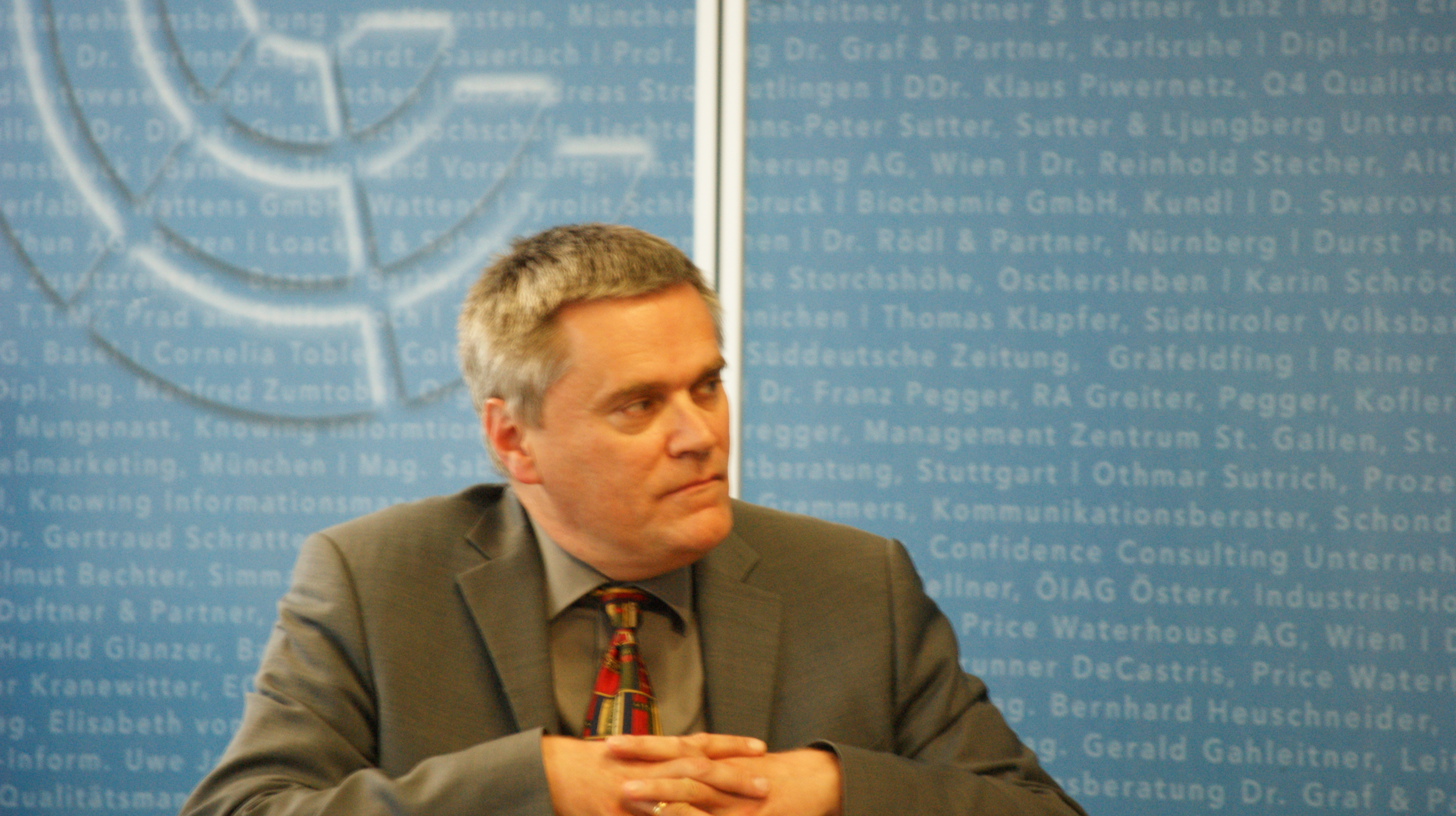 Lecture by François Biltgen (* 1958) at the Management Center Innsbruck (MCI) on April 25, 2019. Pictured: Winfreid Loeffler.